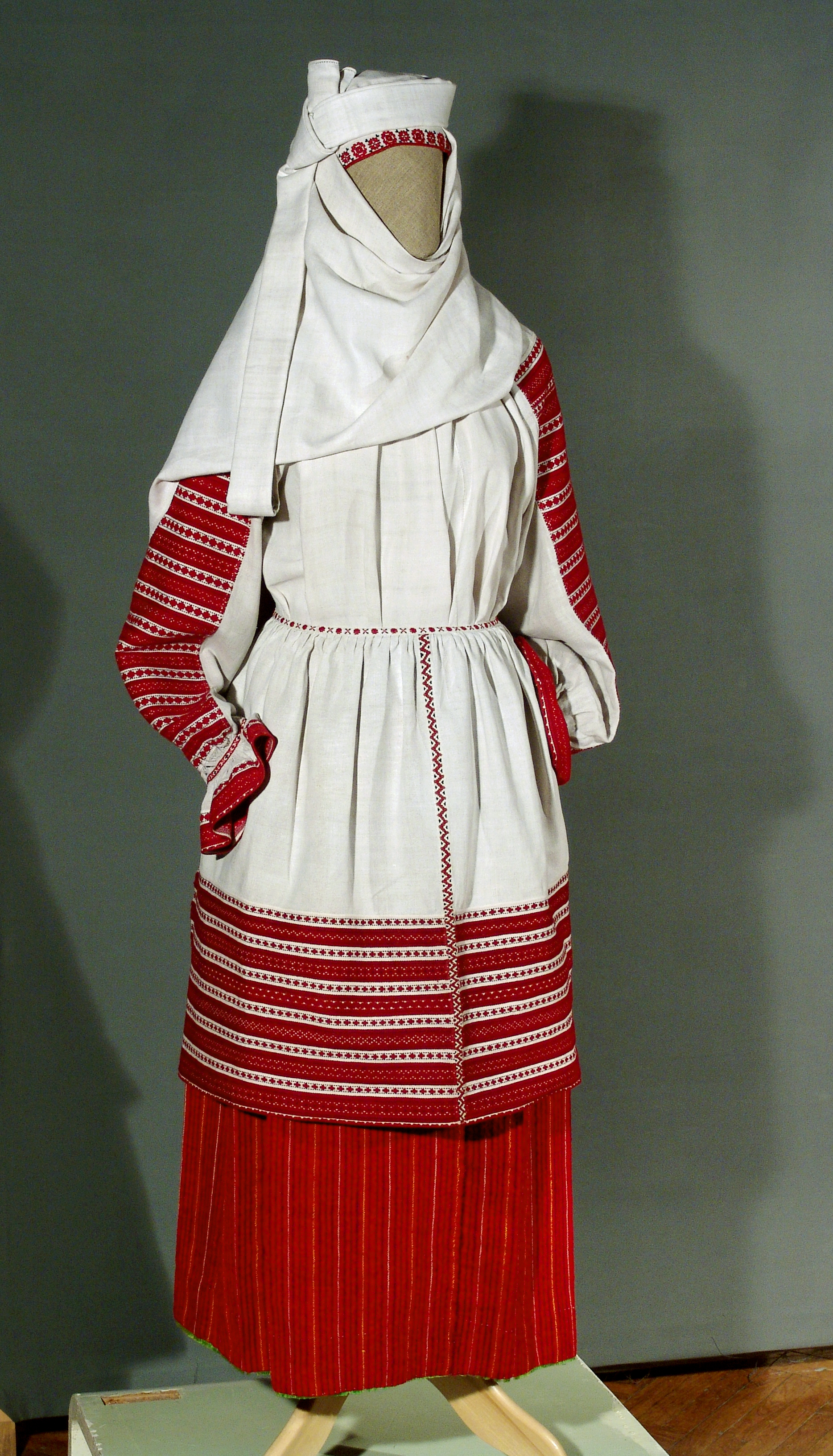 Traditional summer woman clothing of Belarusian peasants (Chabovičy village, Kobryn District, Belarus), the end of the XIXth century. Location: Museum of Belarusian Folk Art (Minsk city, Belarus)